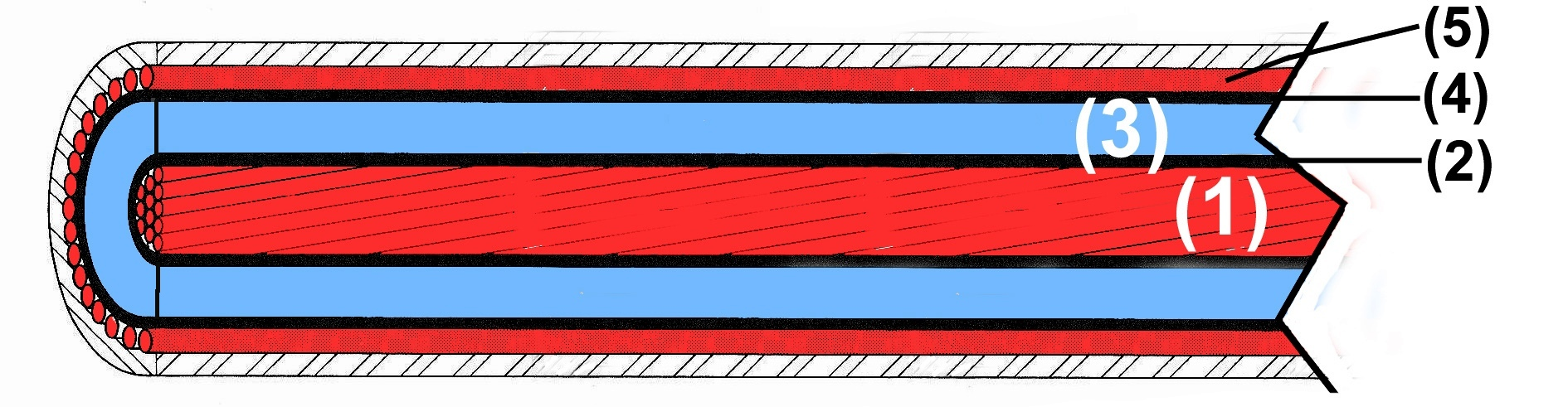 Cross section of a high voltage cable to be used in an article of that name (1) conductor (3) insulation (2) and (4) semiconducting layers (5) outer conductor and outer coat